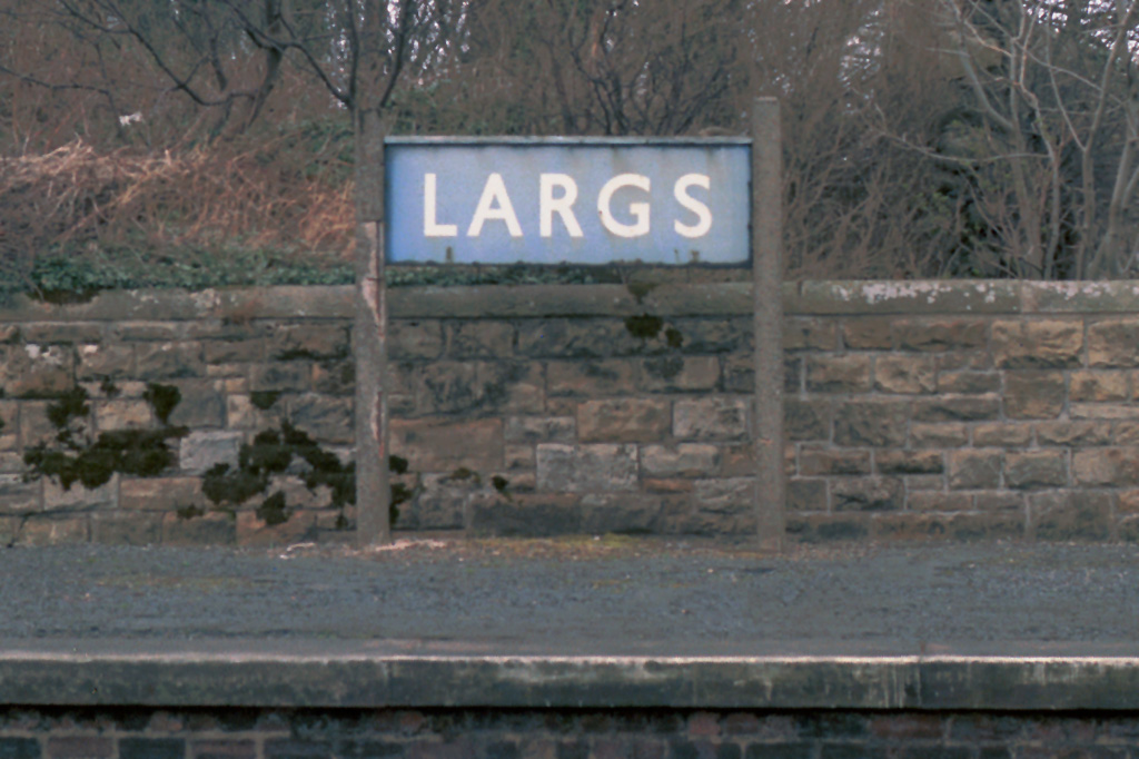 Signage for Largs railway station in Largs, North Ayrshire, Scotland. Photo by Pencefn, taken April 1984.